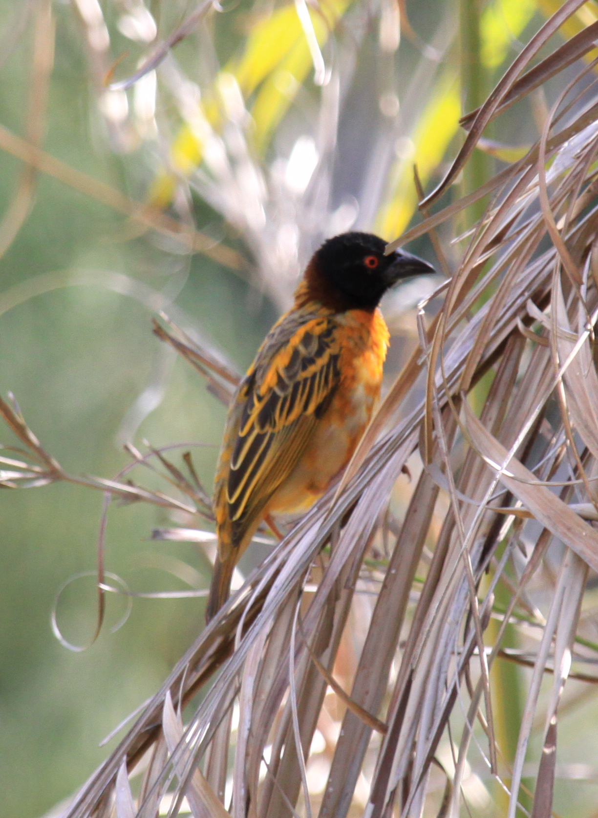 It has been suggested that this is a Black headed Weaver bird (Ploceus cucullatus) in breeding plumage. Possibly Ploceus cucullatus bohndorffi or Ploceus cucullatus paropterus. It might even be a Village weaver Although in the Oasis park, these yellow/orange birds are free to come and go, so are not captive birds